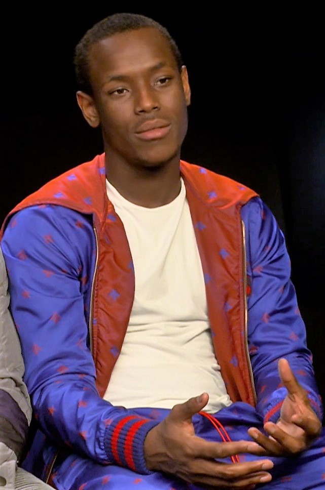 Interview with Stephen Odubola and Micheal Ward | Blue Story Maya Egbo interviews Stephen Odubola (Timmy) and Micheal Ward (Marco) from "Blue Story".